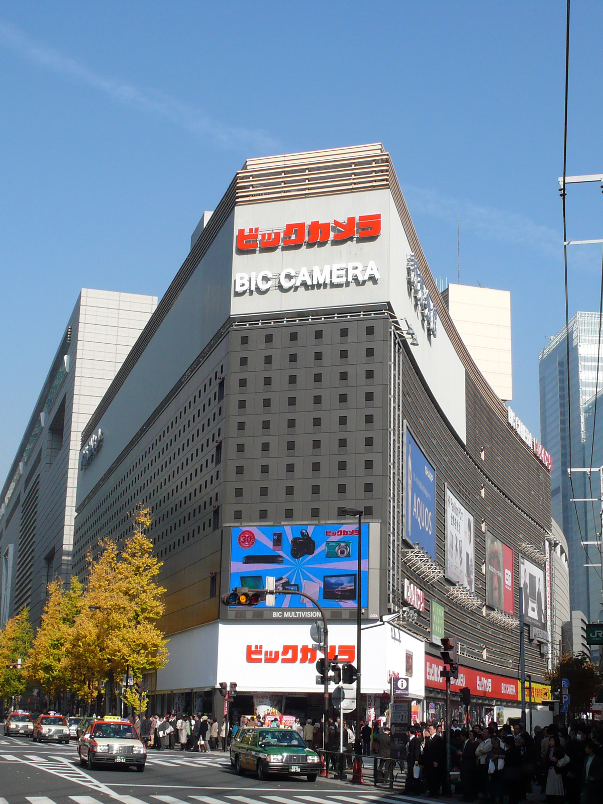 Bic Camera, main store in Yurakucho, Chiyoda-ku,Tokyo.